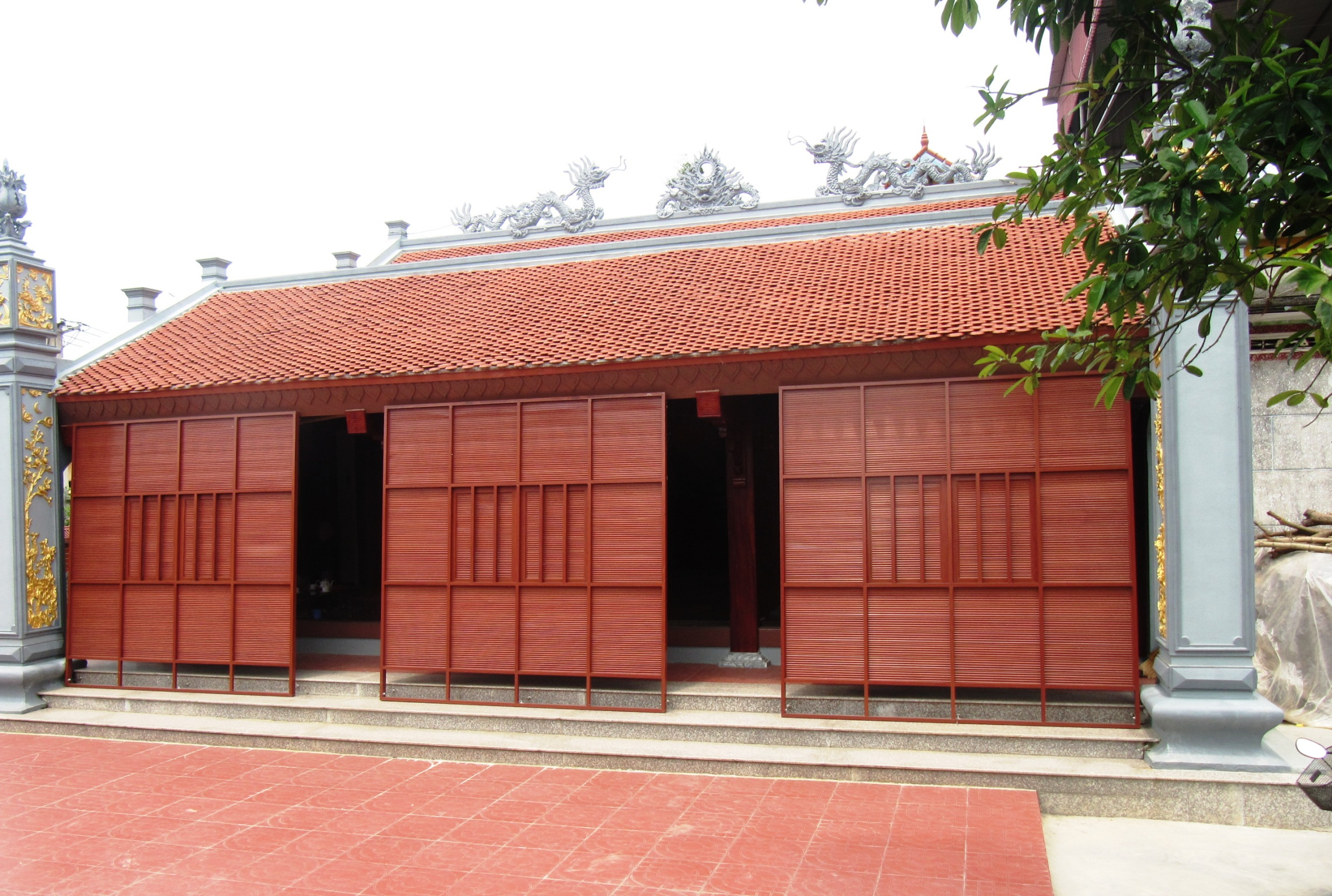 Memorial house about Luong Duyen Hoi, Hong Viet commue, Thai Binh province